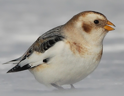 Plectrophenax nivalis